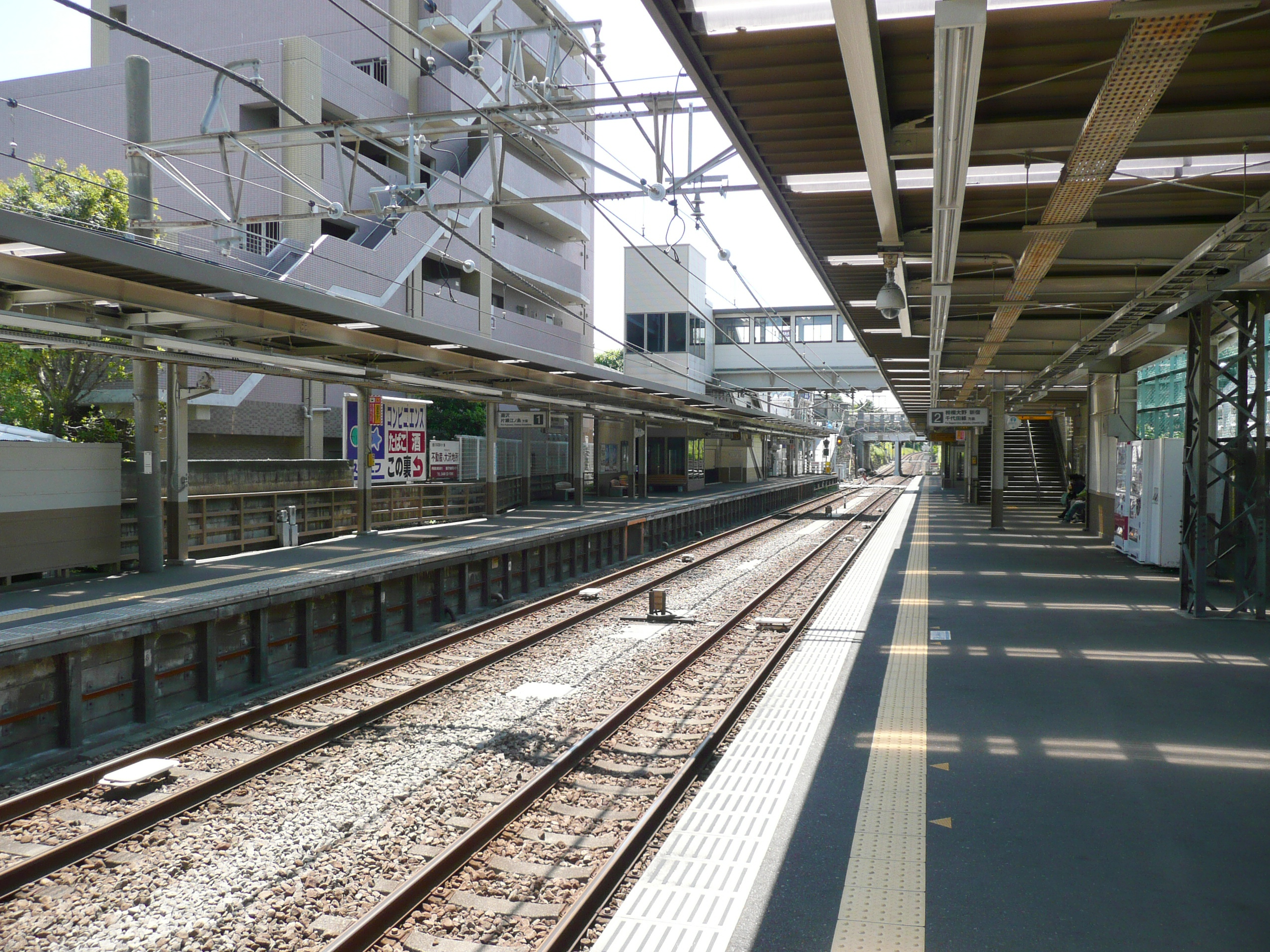 Platforms of Fujisawa-Hommachi Station